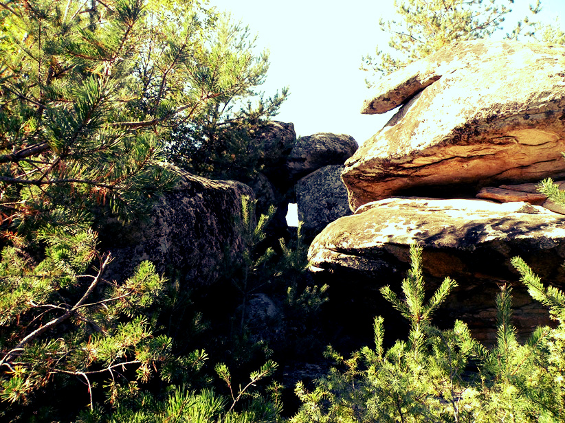 Gradishte_Sanctuary_The_Arc_Dolno_Dryanovo_Village